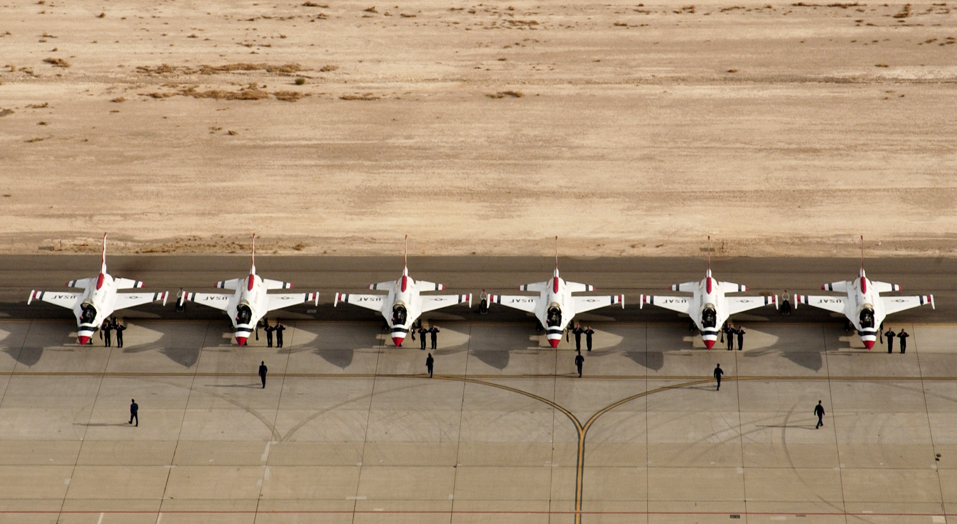 Thunderbirds at Nellis Air Force Base